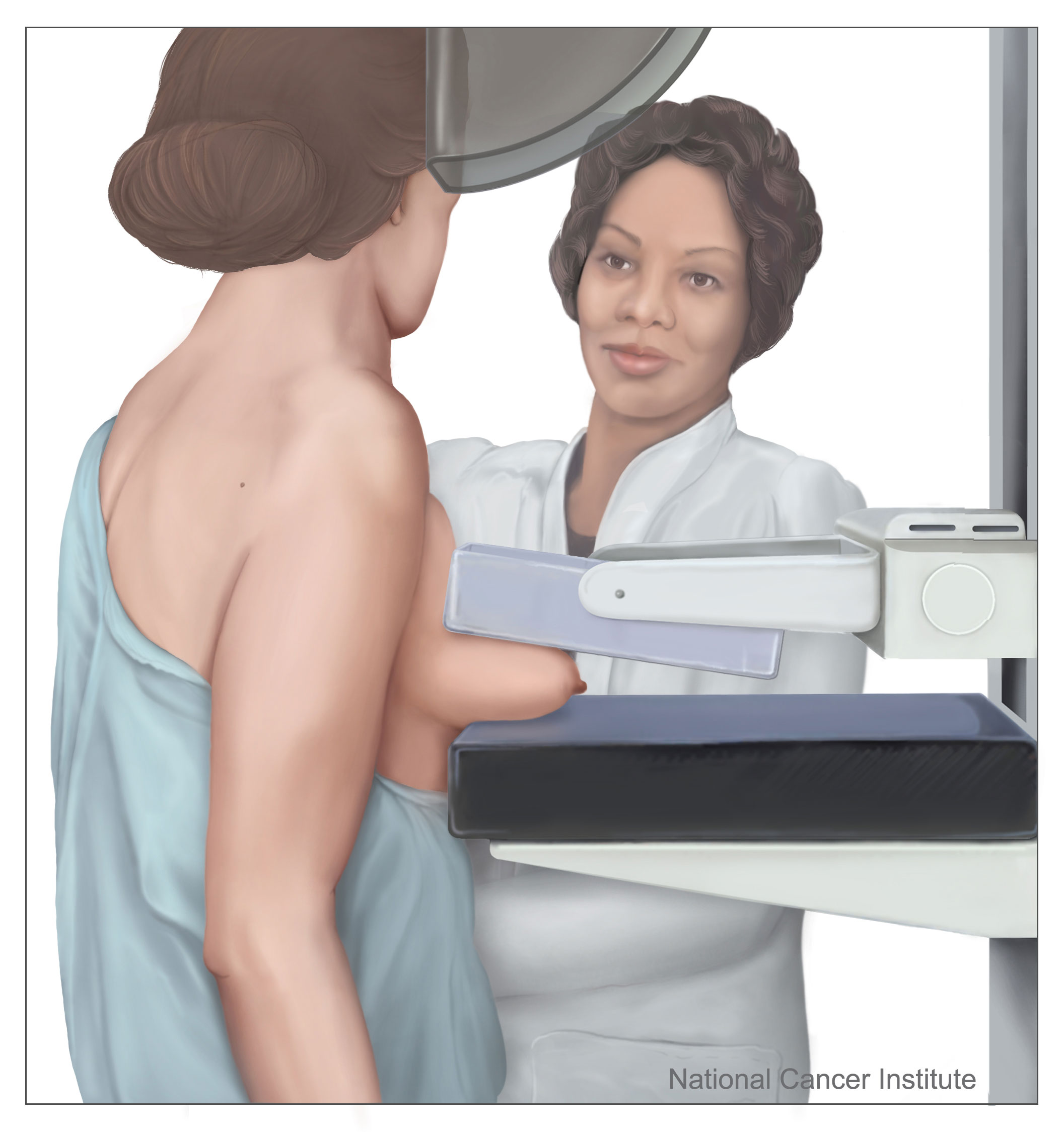 Mammography in process: Shown is a drawing of a female having a mammogram. A mammogram is a picture of the breast that is made by using low-dose x-rays.